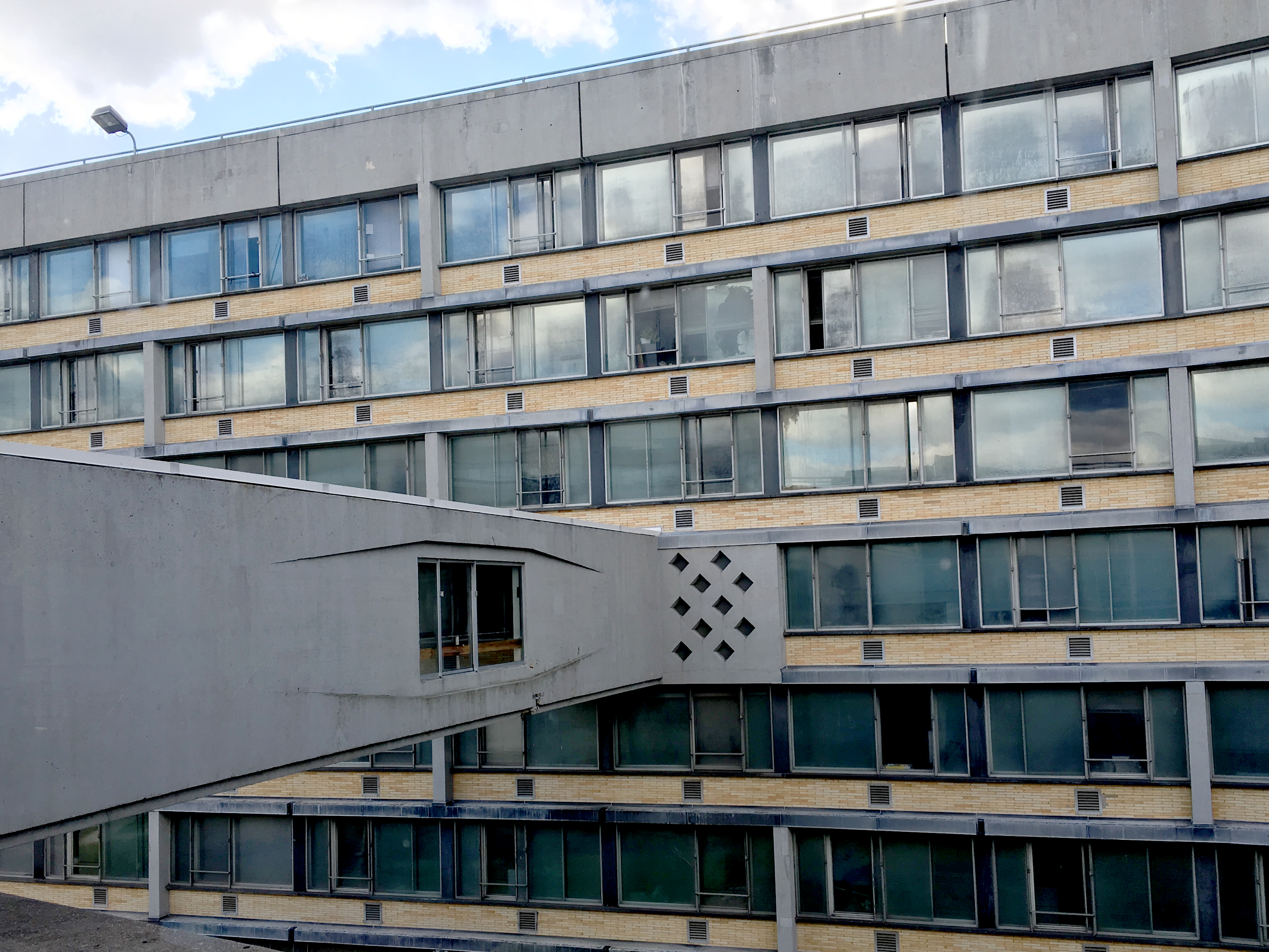 Bronx Community College: Robert F. Gatje TourSite: Bronx Community College